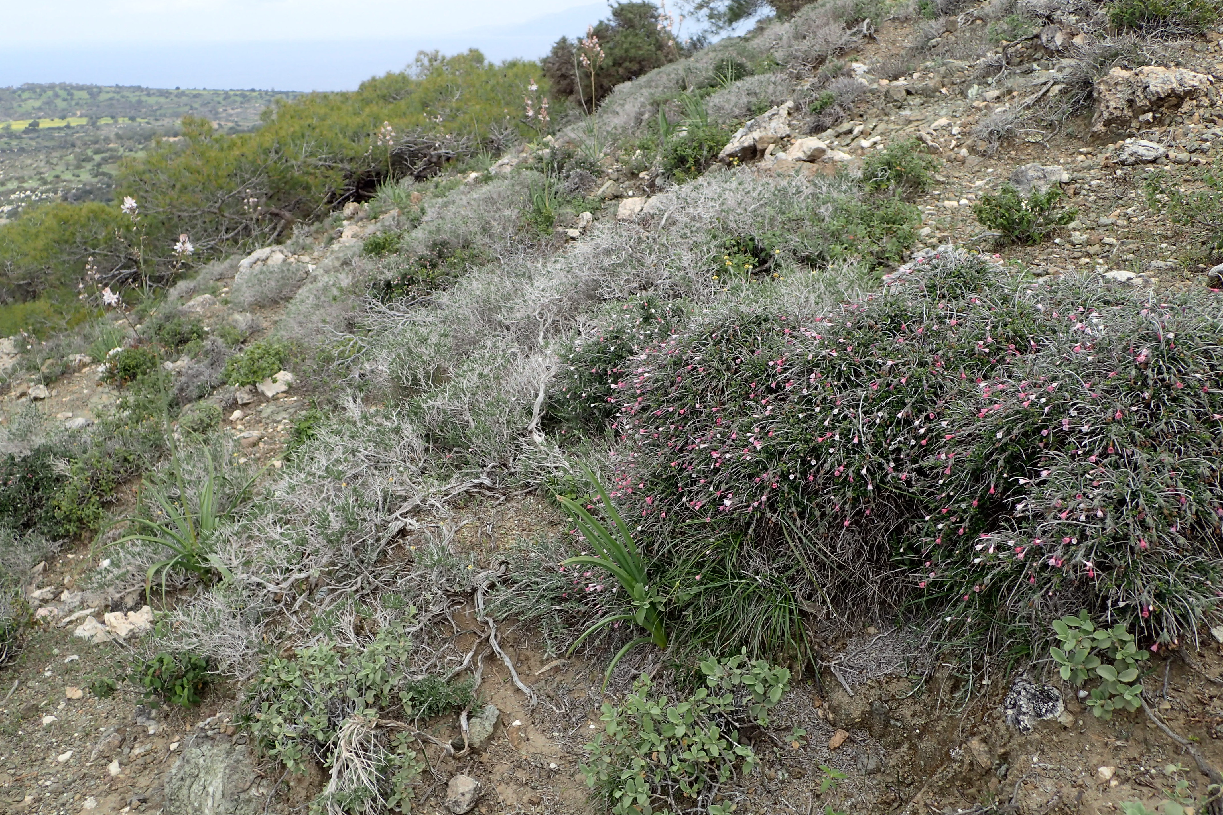 Lithodora hispidula subsp. versicolor on Akamas Peninsula, Cyprus